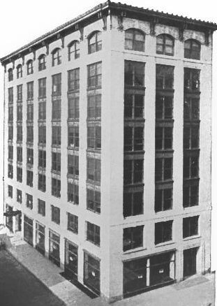 Trussed Concrete Building headquarters in Detroit 1910